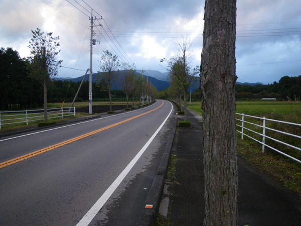 Tochigi prefectural road R53, on Takabayasi old Takabayasi village. Nasushiobara, Tochigi, Japan.